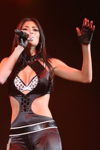 Nicole Scherzinger at the Tacoma Dome in Washington.